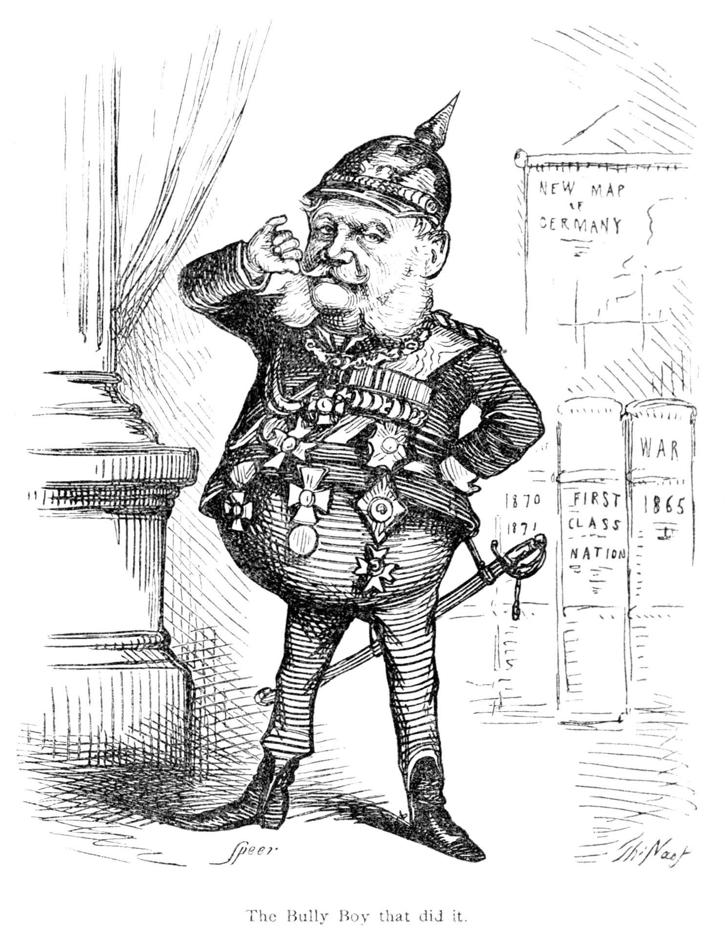 Caricature of Wilhelm I, German Emperor by Thomas Nast which appeared in The Fight at Dame Europa's School by Henry William Pullen. Page border removed, image cleaned up, and contrast corrected to make image grayscale on white.